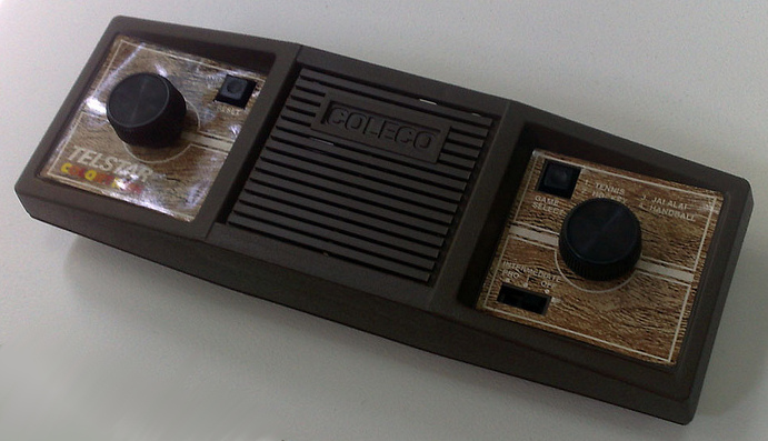 The Coleco Telstar Colortron pong-like console.